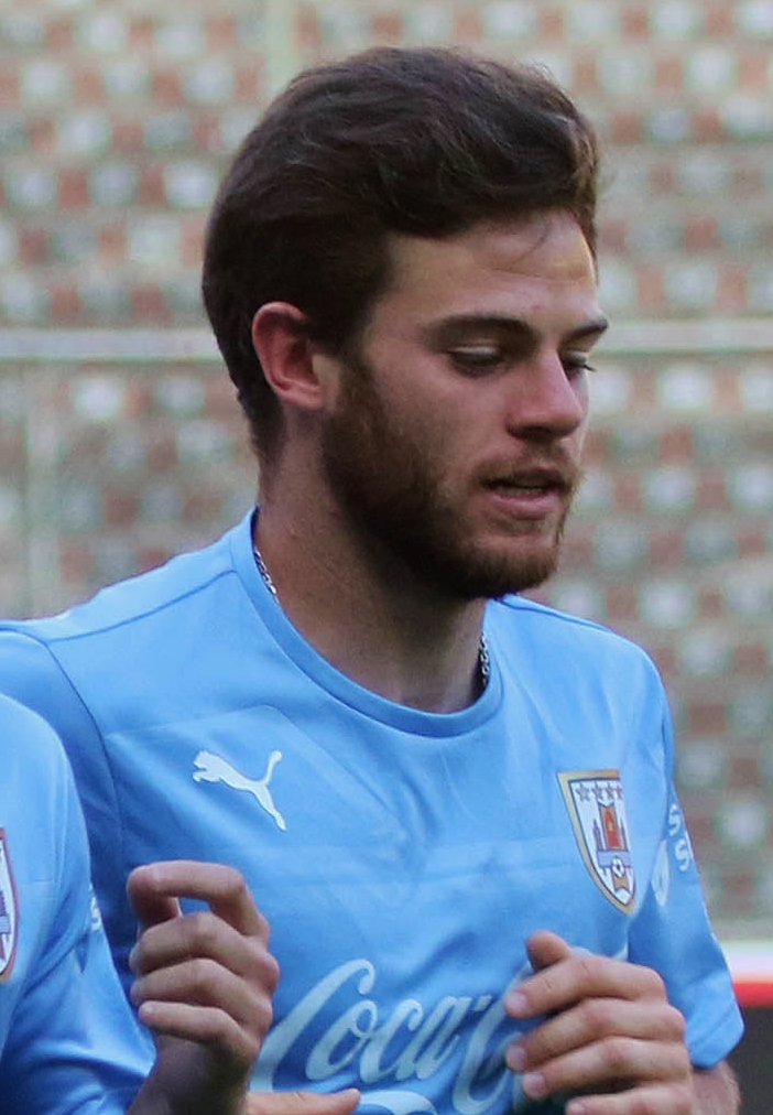 Guayaquil, 09 de nov. del 2015 (Andes).-El primer grupo de jugadores de la selección de Uruguay que llegó a Ecuador realizó una práctica en el estadio Monumental.Foto:César Muñoz/Andes Nahitan Nández